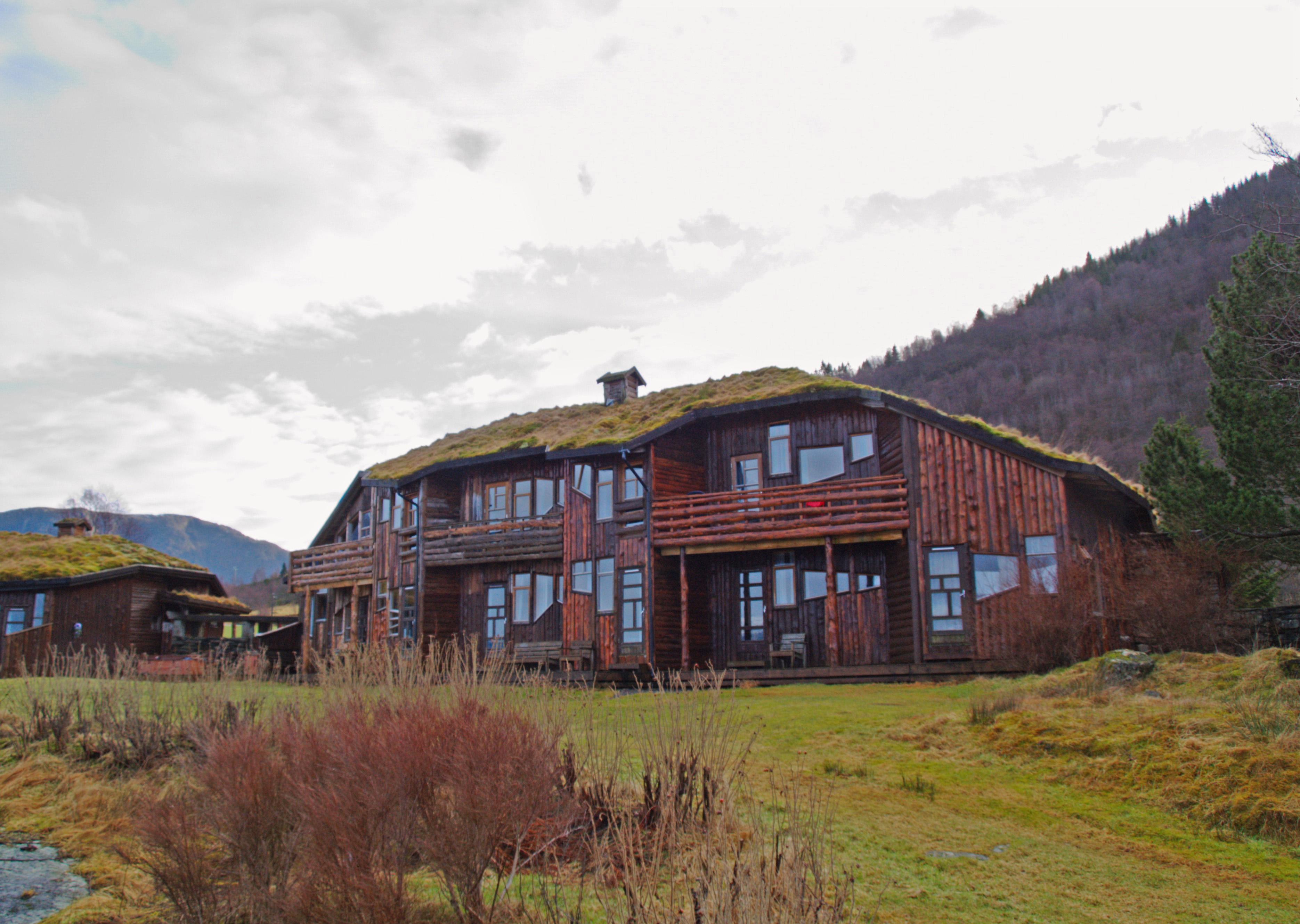 Brekkestranda Fjordhotell in Gulen municipality, Norway.